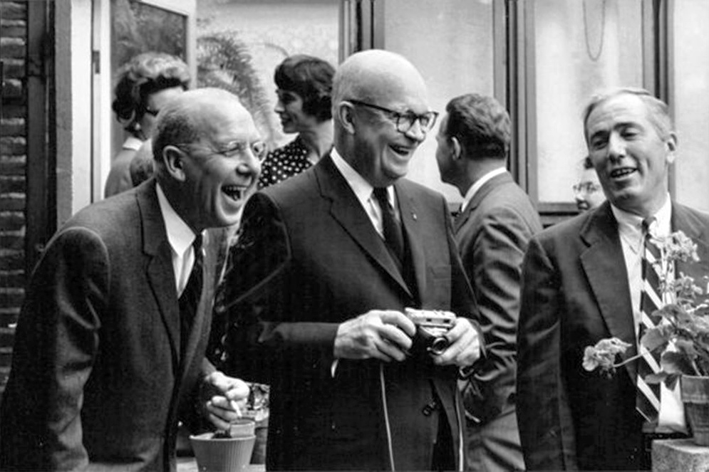 Dwight D. Eisenhower gathered with other people in a event while holding a camera. To the right is the US ambassador in Stockholm, J. Graham Parsons.